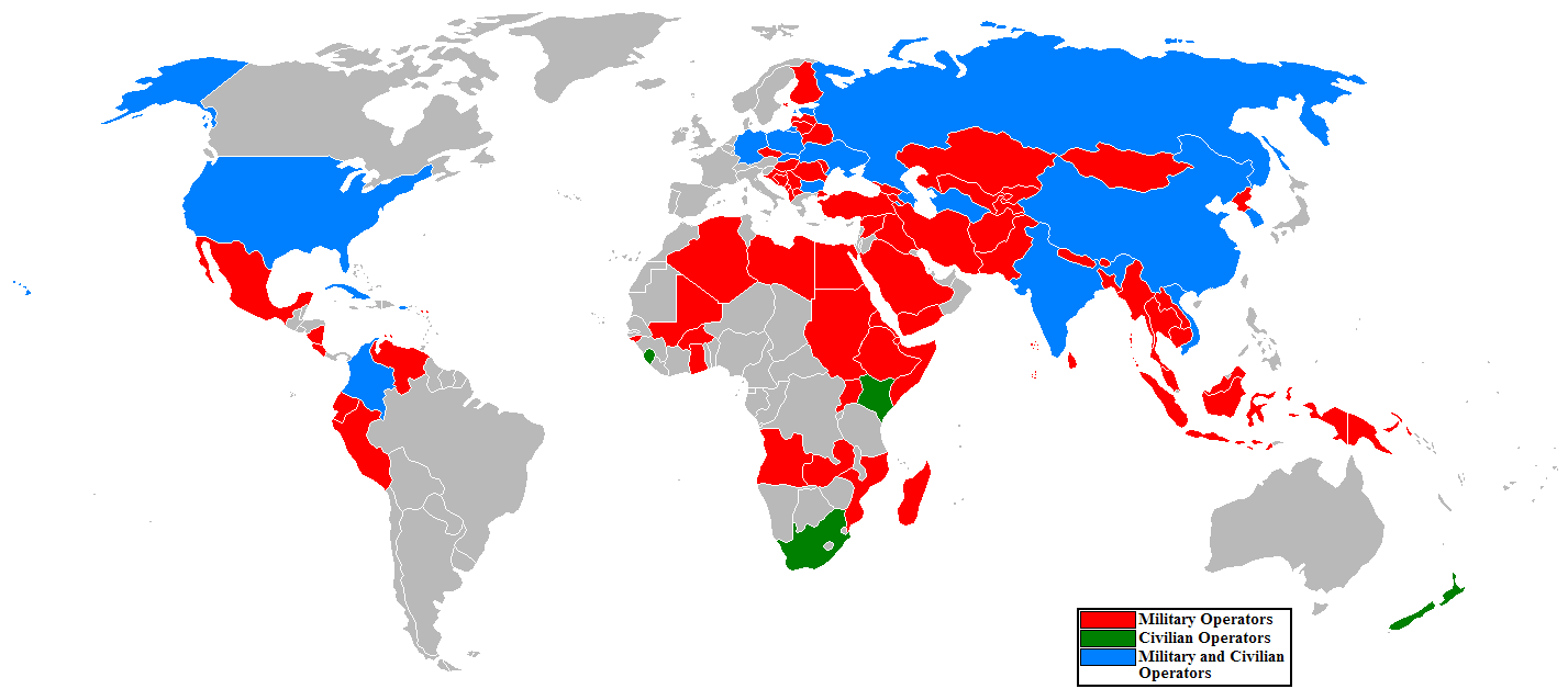 World map of operators of the Mil Mi-8 Helicopter. Red= Military Users; Green= Civilian Users; Blue= Both Military & Civilian Users.